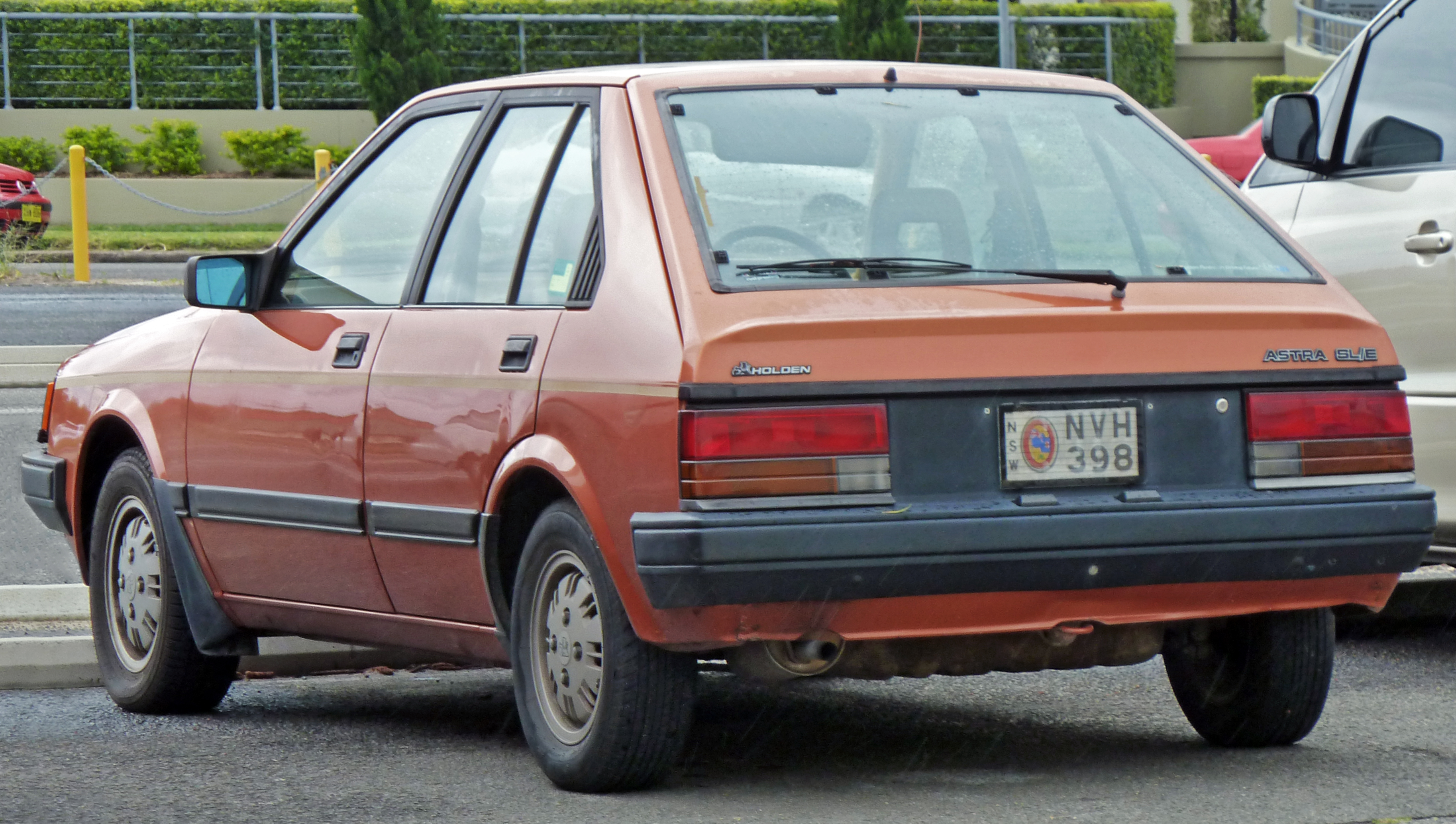 1985 Holden LB Astra SL/E hatchback. Photographed in Sans Souci, New South Wales, Australia.